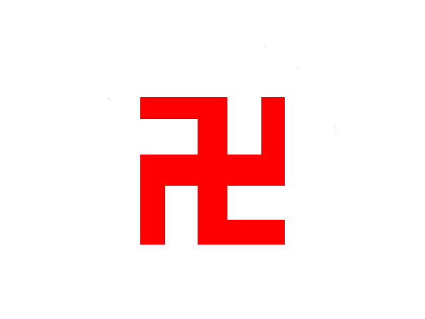 Korean Buddhist flag commonly flown on temples